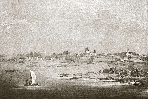 Napoleon Orda - Turaw 1856